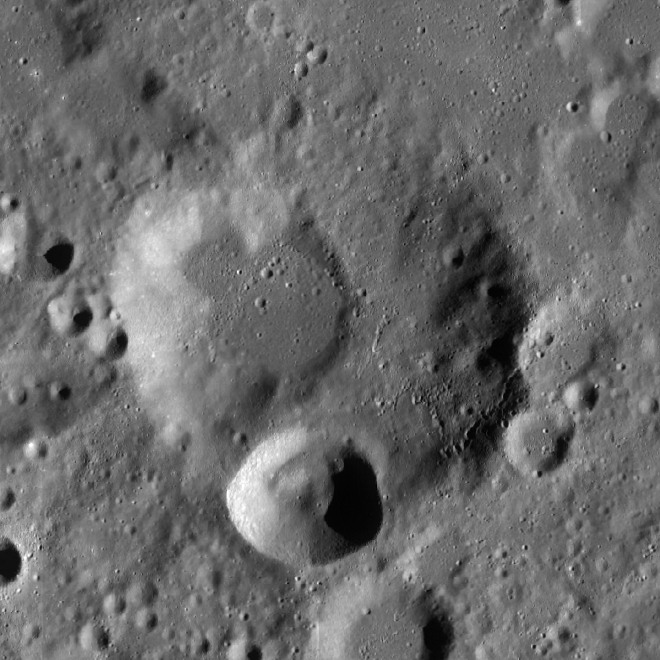 Van den Bergh crater, on the far side of the moon. LRO Wide Angle Camera mosaic.